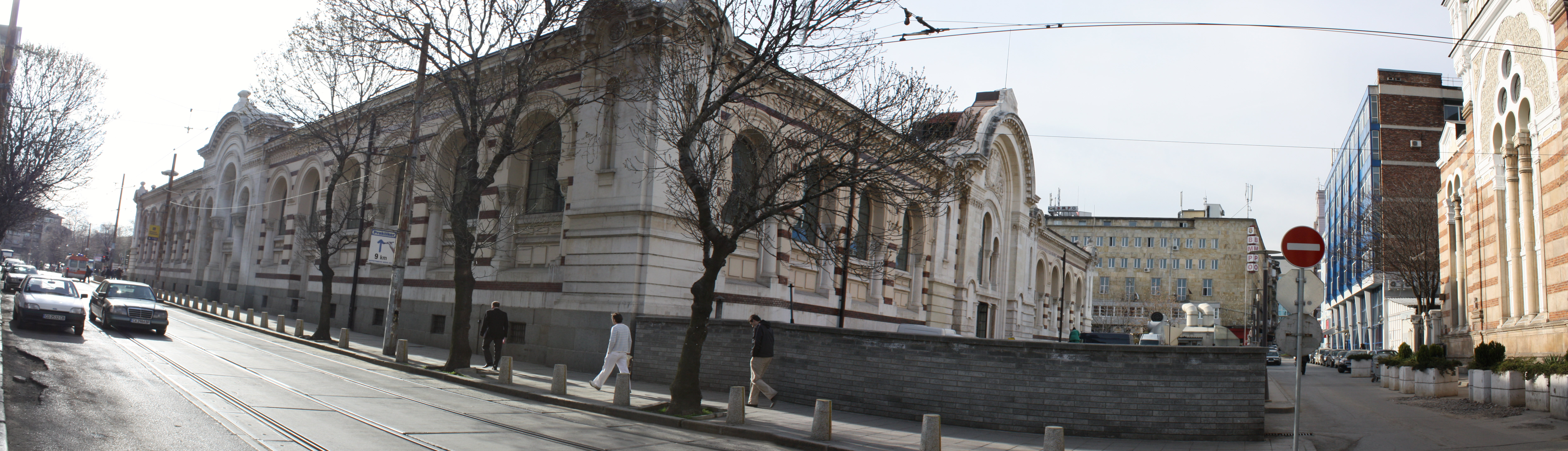 Central Market Hall in Sofia, Bulgaria, rechts die Synagoge in Sofia, links die Zentralmarkthalle